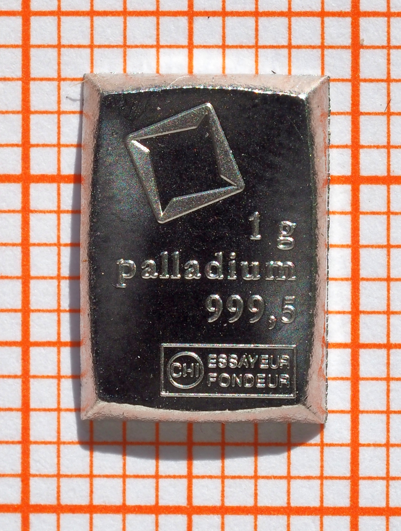 Palladium ingot (1 gram) on millimeter paper